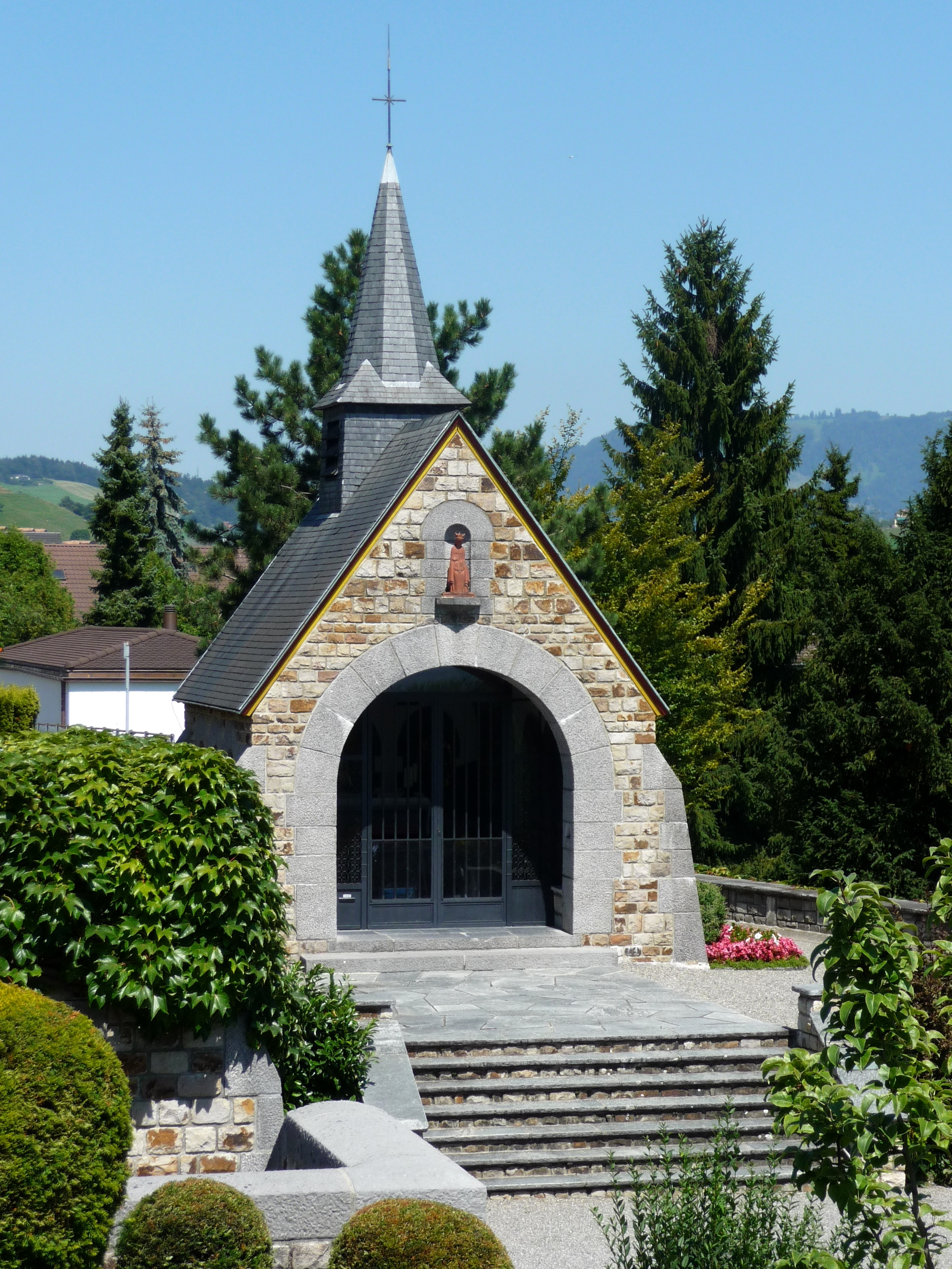 Astrid Chapel in Küssnacht, Canton of Schwyz, Switzerland